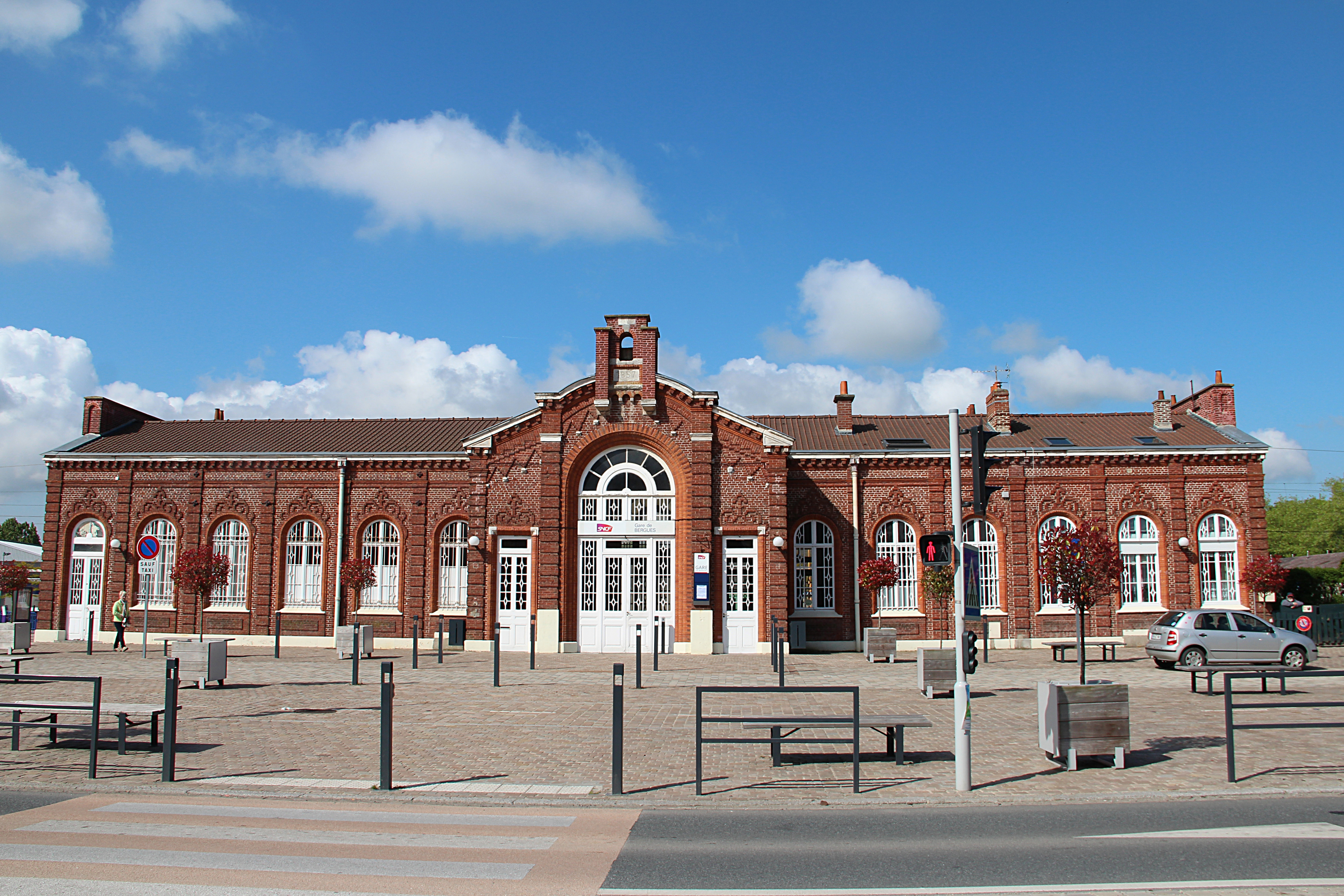 The Bergues train station (Nord department, France).